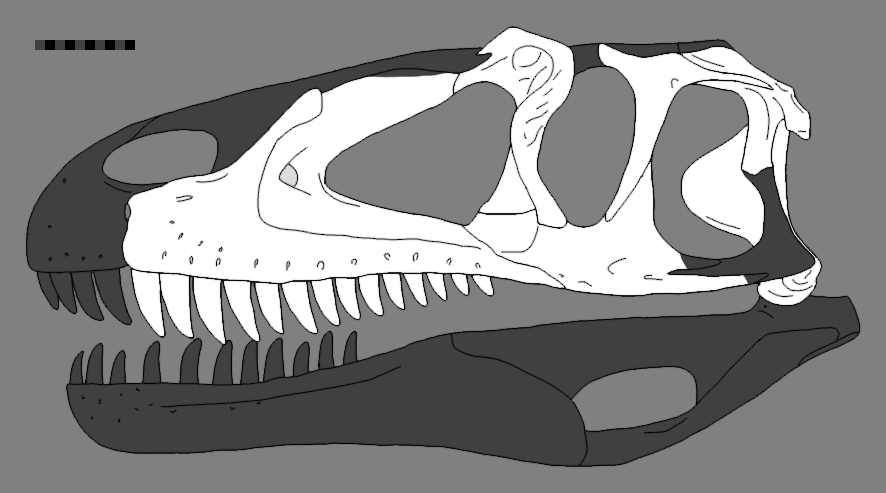 Skull reconstruction of Afrovenator abakensis based on the holotype and only known specimen. White material is known, unknown material based on Dubreuillosaurus valesdunensis. Scale bar is 10cm, image is 10px/cm. Cranial anatomy from Sereno et al. (1994) "Early Cretaceous Dinosaurs from the Sahara"